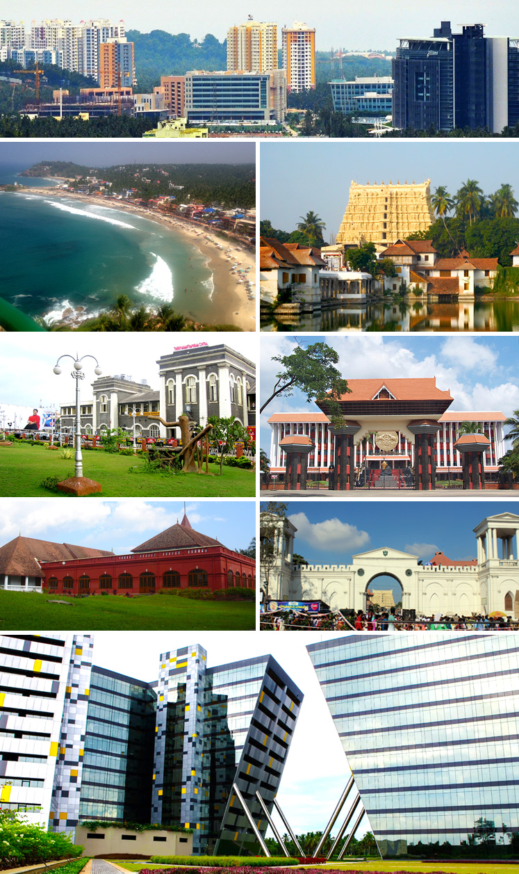 Montage of Thiruvananthapuram City